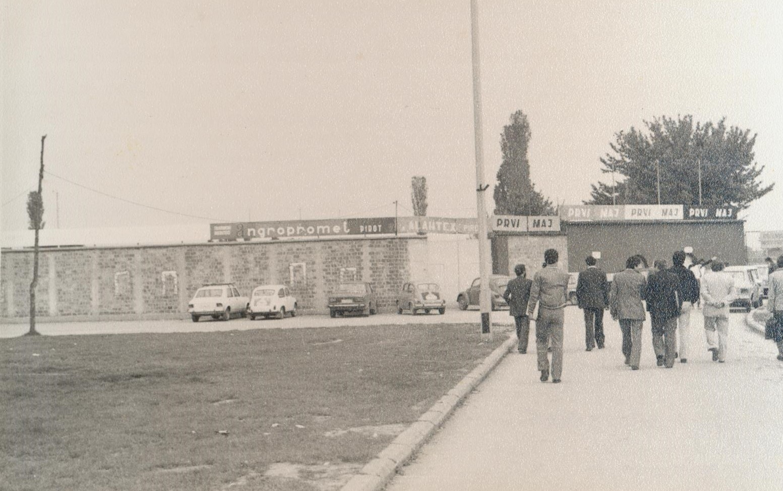 Stadium of football club "Radnicki Pirot", 1980